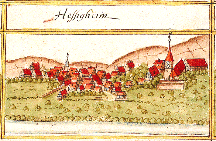 View of Hessigheim from the forest register books created by Andreas Kieser